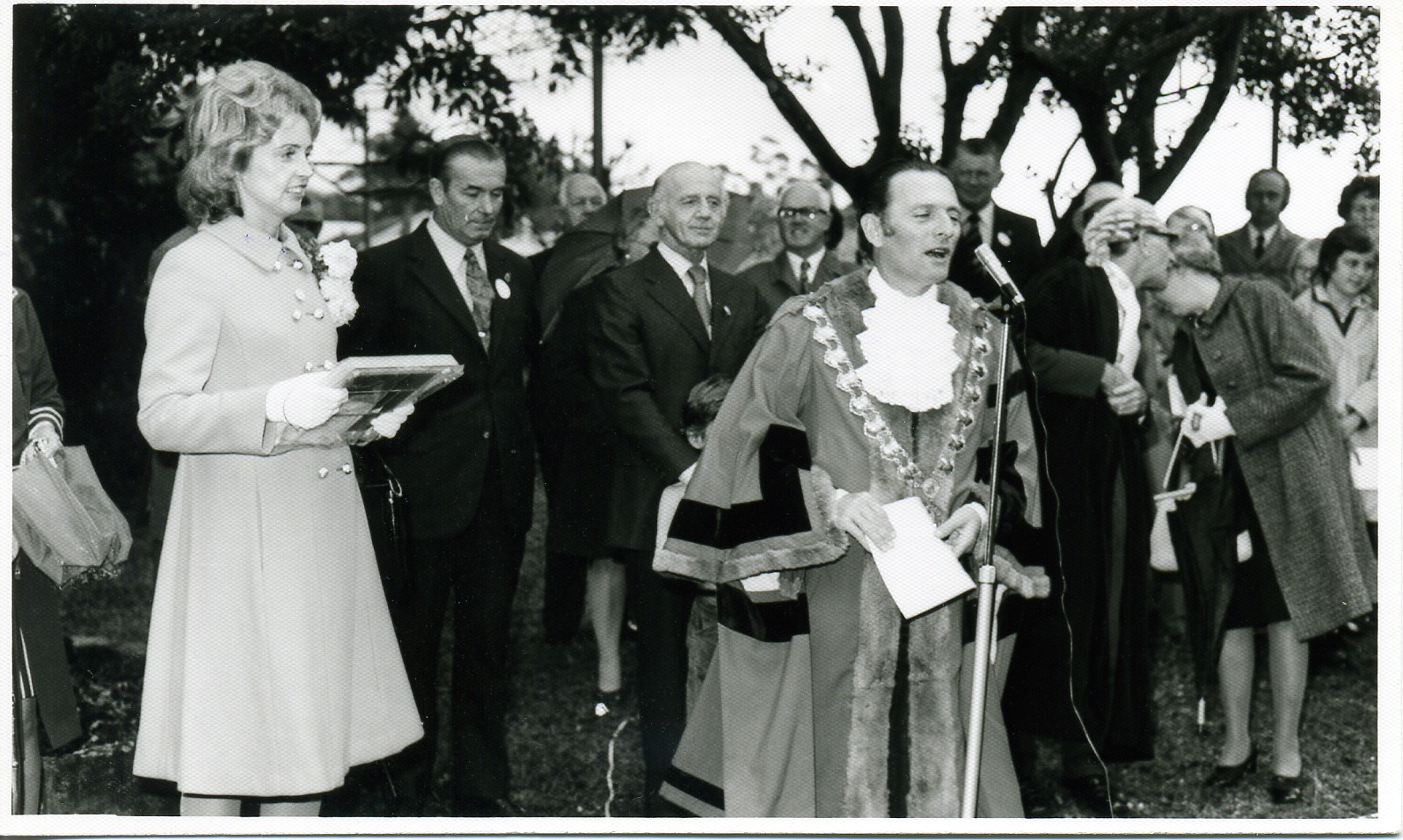 Sonia McMahon (left) with Blue Mountains Mayor Dash